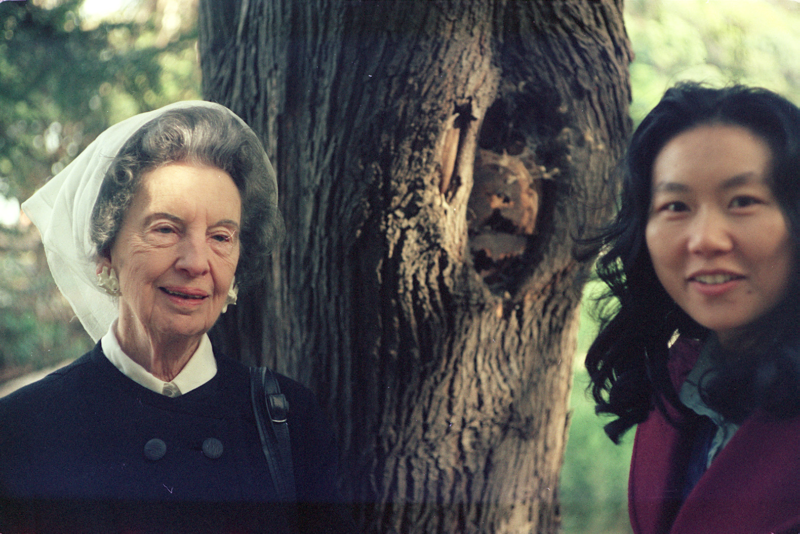 American writer Kay Boyle and Chinese American historian Connie Young Yu on Angel Island, San Francisco Bay in 1975. Photo by Nancy Wong.